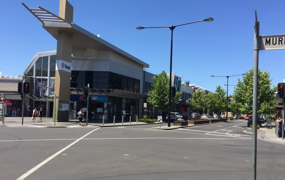 pointcook